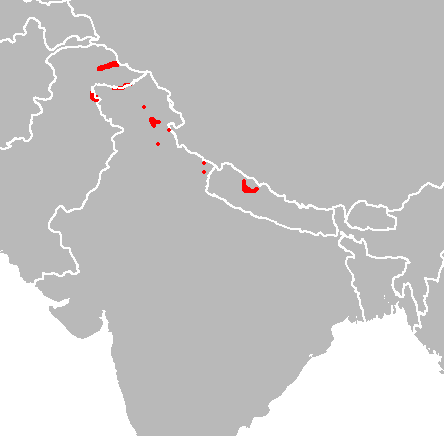 Cheer Pheasant (Catreus wallichi) distribution, source: BirdLife International